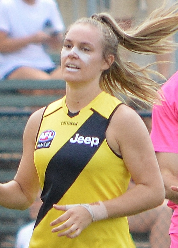 Ella Wood with Richmond during a pre-season AFL Women's match against West Coast at Punt Road Oval in January 2020.